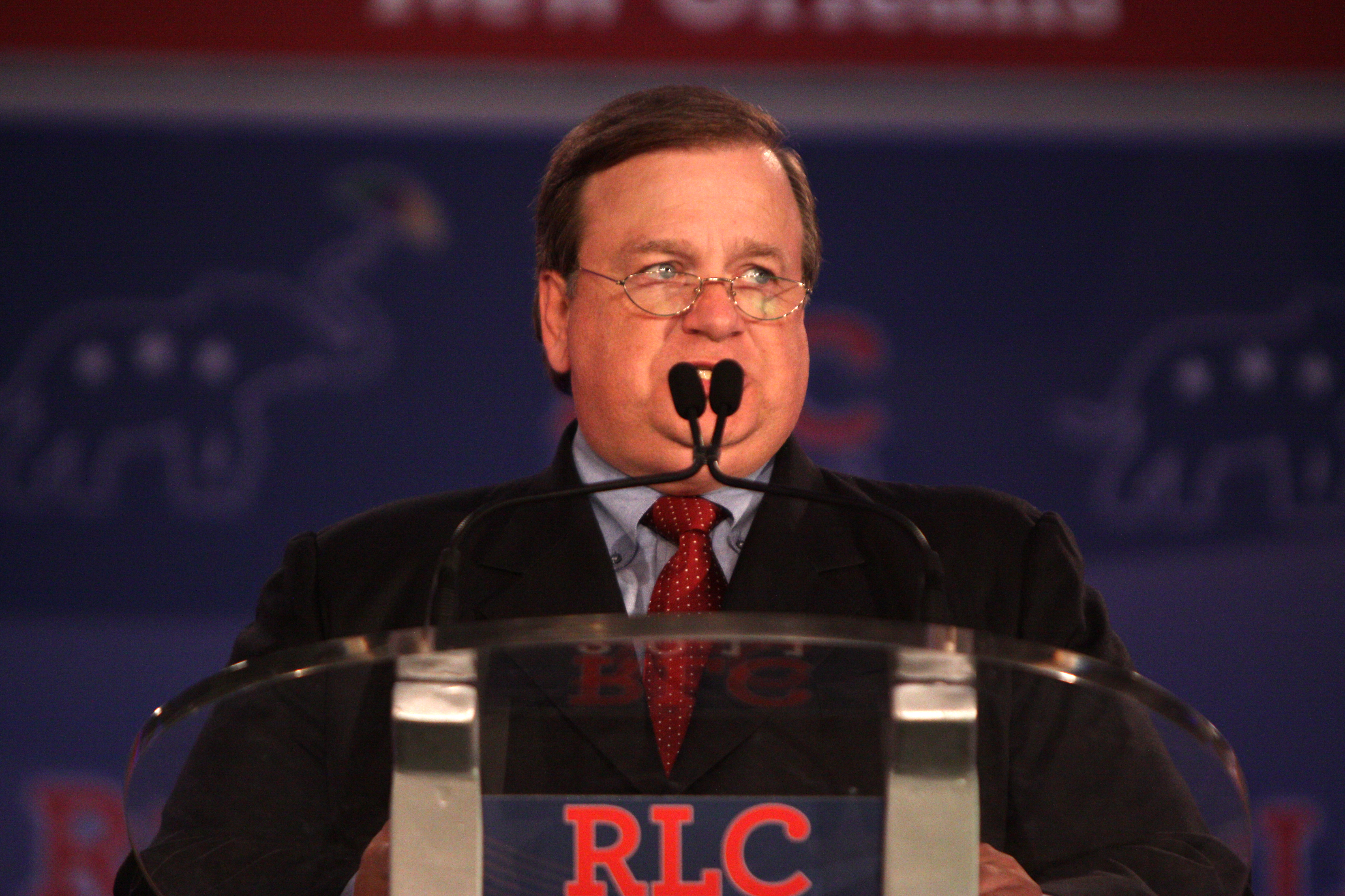 Eric Skrmetta speaking at the Republican Leadership Conference in New Orleans, Louisiana. Pleaes attribute to Gage Skidmore if used elsewhere.